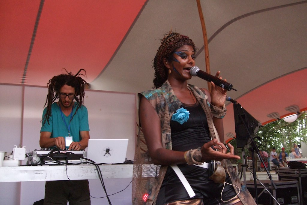 jahcoozi at fusion festival 2010 by alice_d25